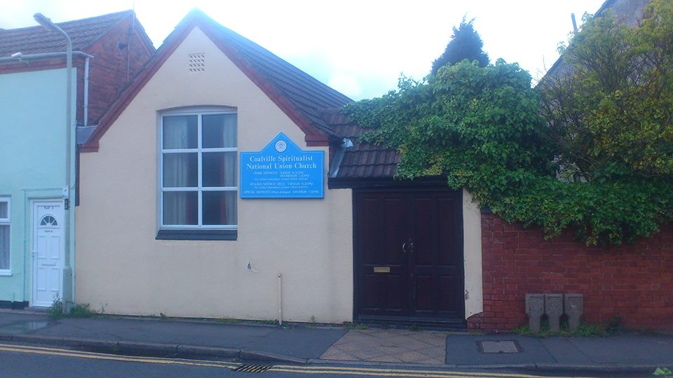 Coalville Spiritualist Church on Bridge Road